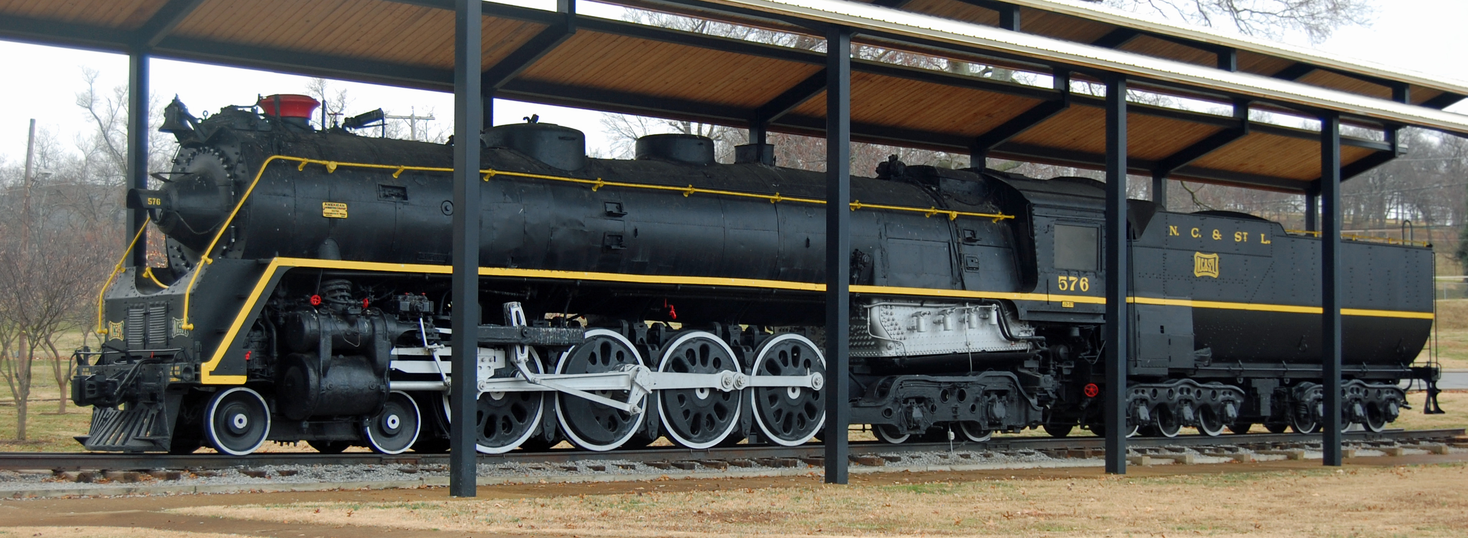 Steam engine in Centennial Park, Nashville, Tennessee, US